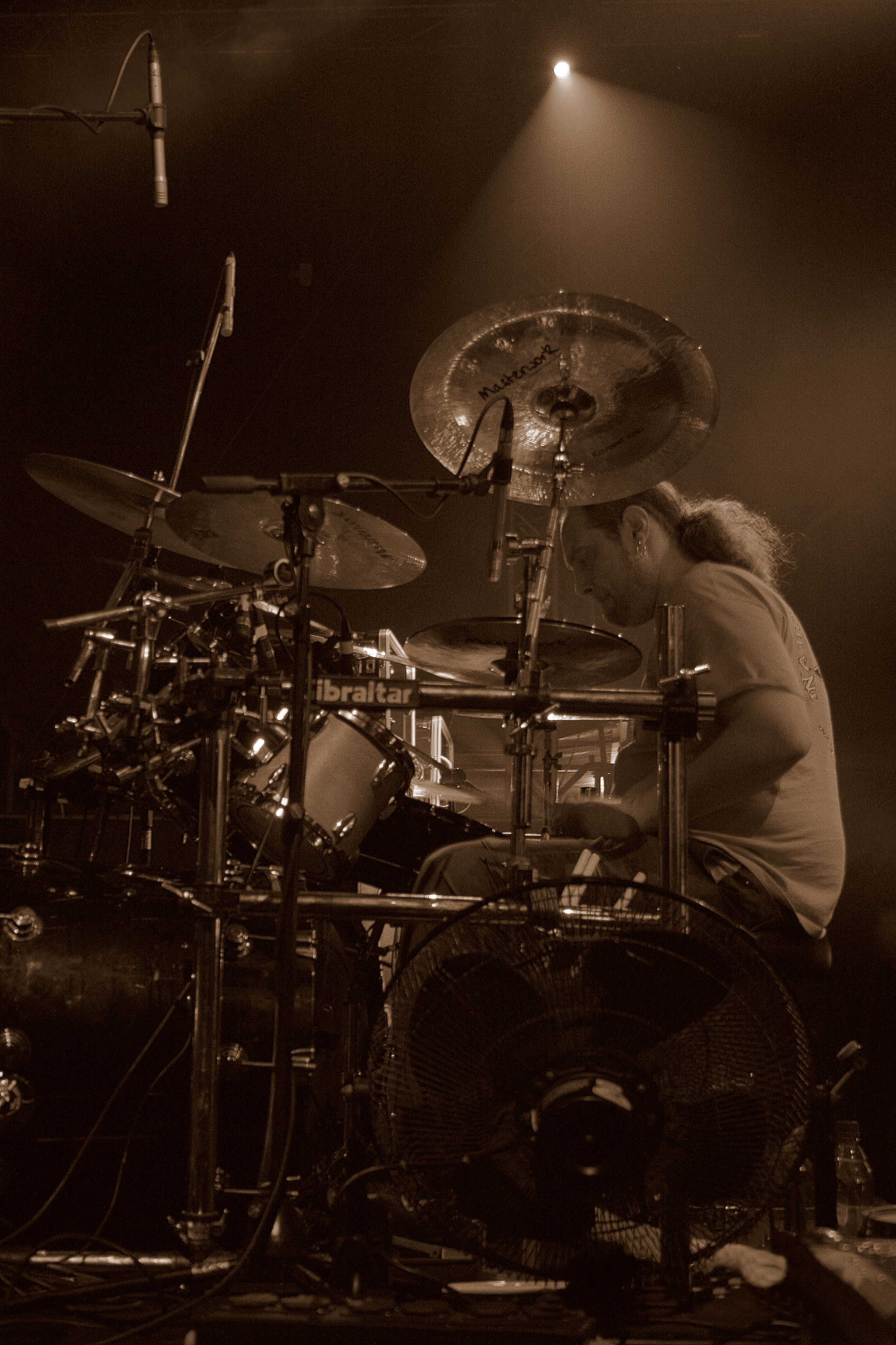 Live